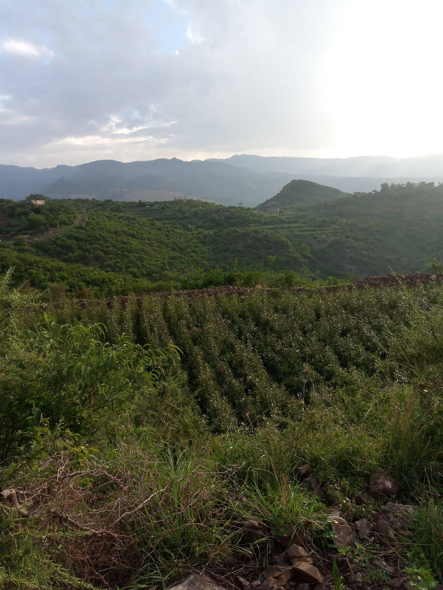 Al-Sahul region in Yemen, more information can be found in English Wikipedia